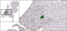 Location of Vlist